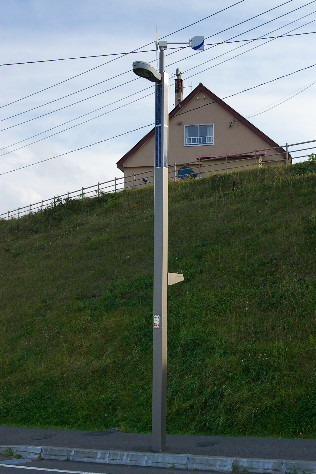 Street light equipped with a solar panel and an aerogenerator in Wakkanai city.